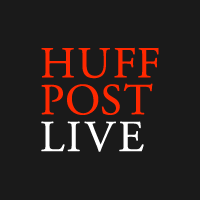 Logo for HuffPost Live